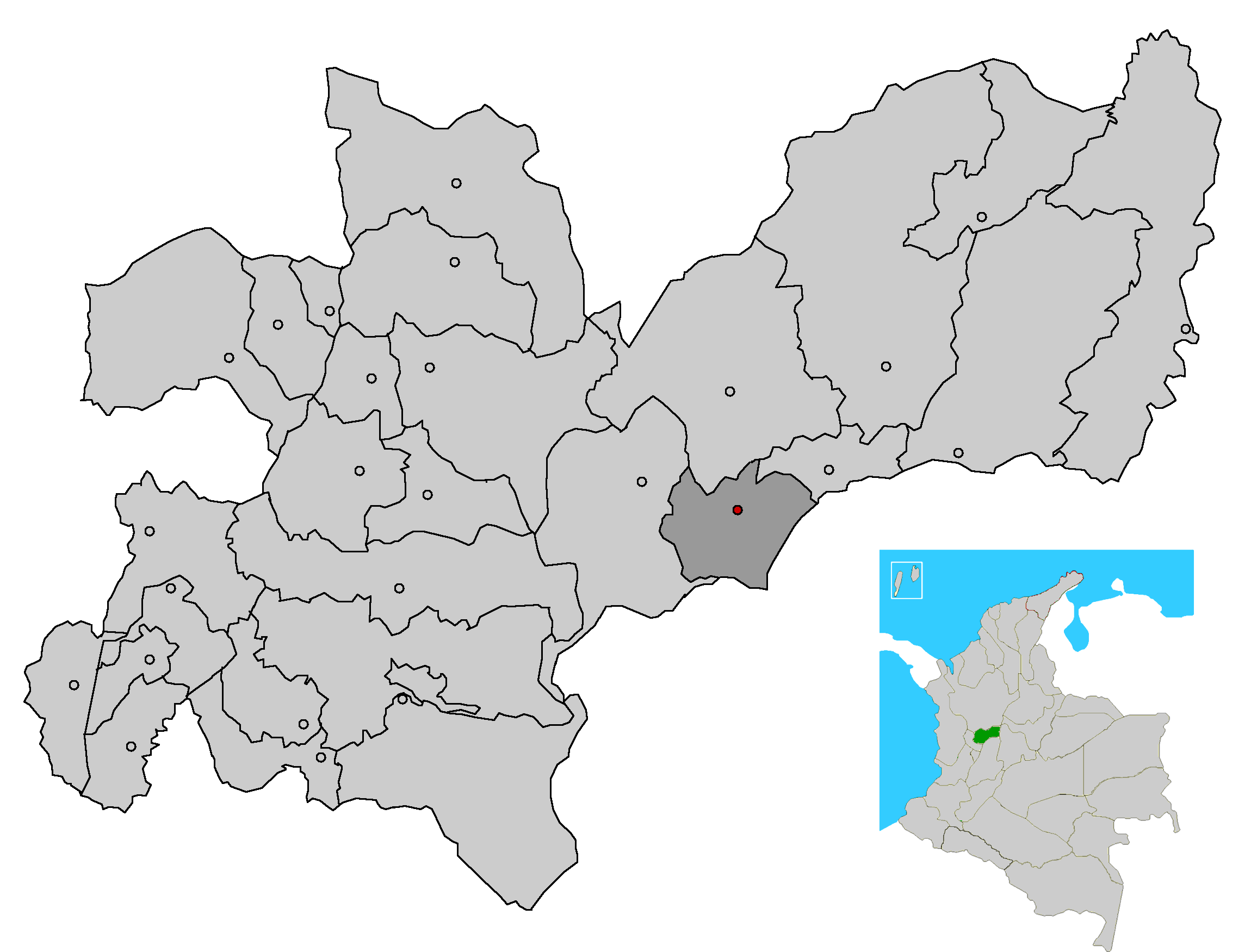 Image depicting map location of the town and municipality of Manzanares in Caldas Department, Colombia